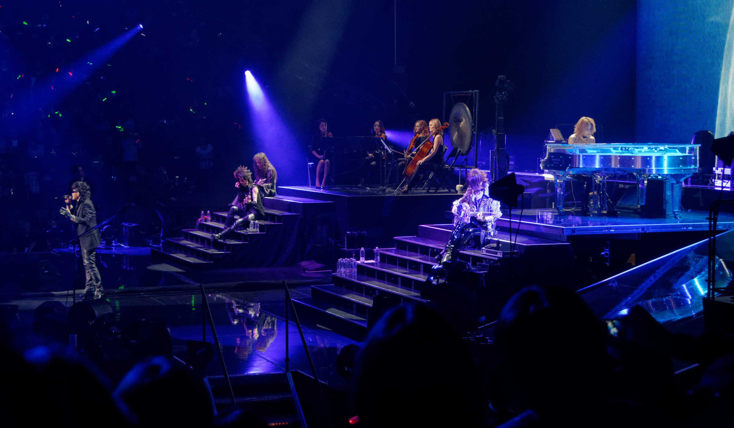 X Japan performing live at Madison Square Garden in New York City on Saturday October 11th, 2014. X Japan is Japan's biggest and most famous rock band, and this was their debut performance at the historic NYC venue.